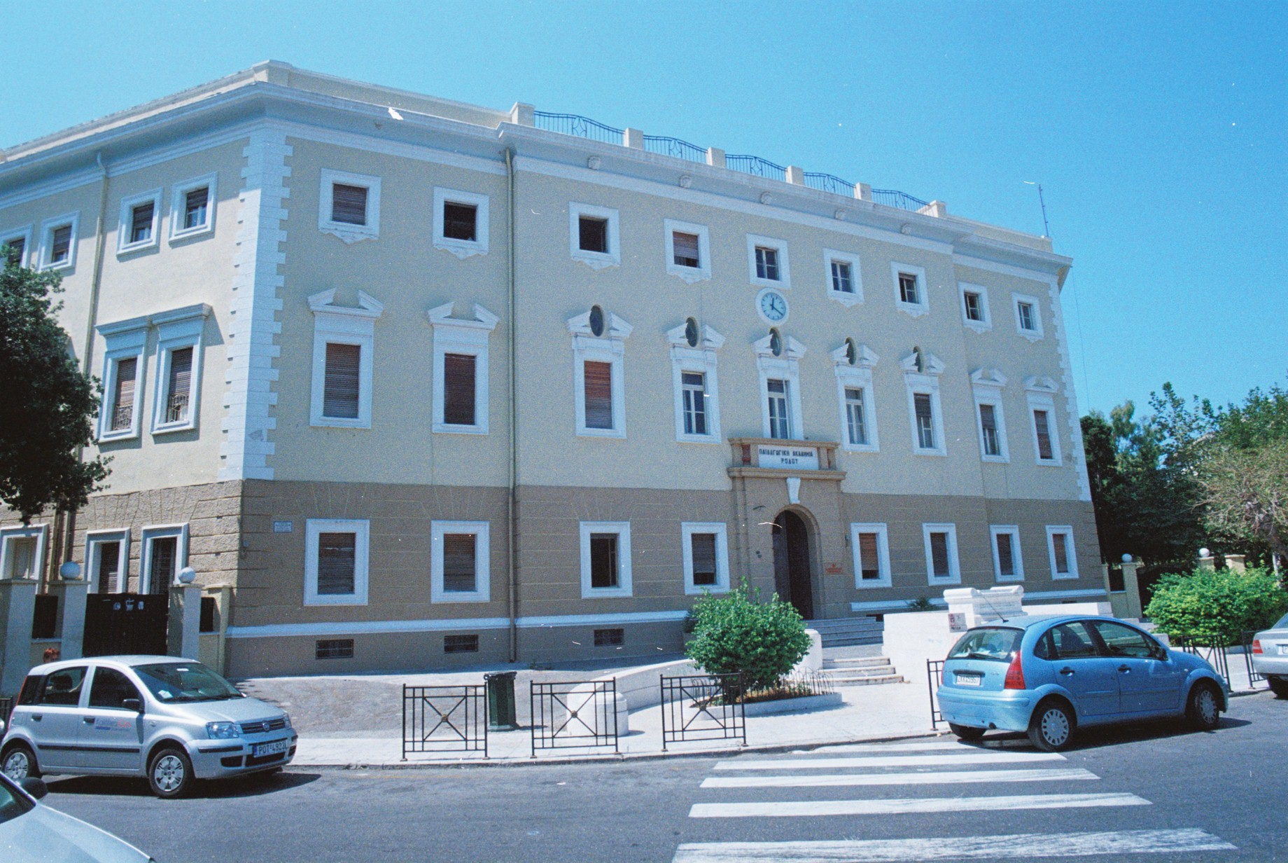 Rodi Scuola Maschile